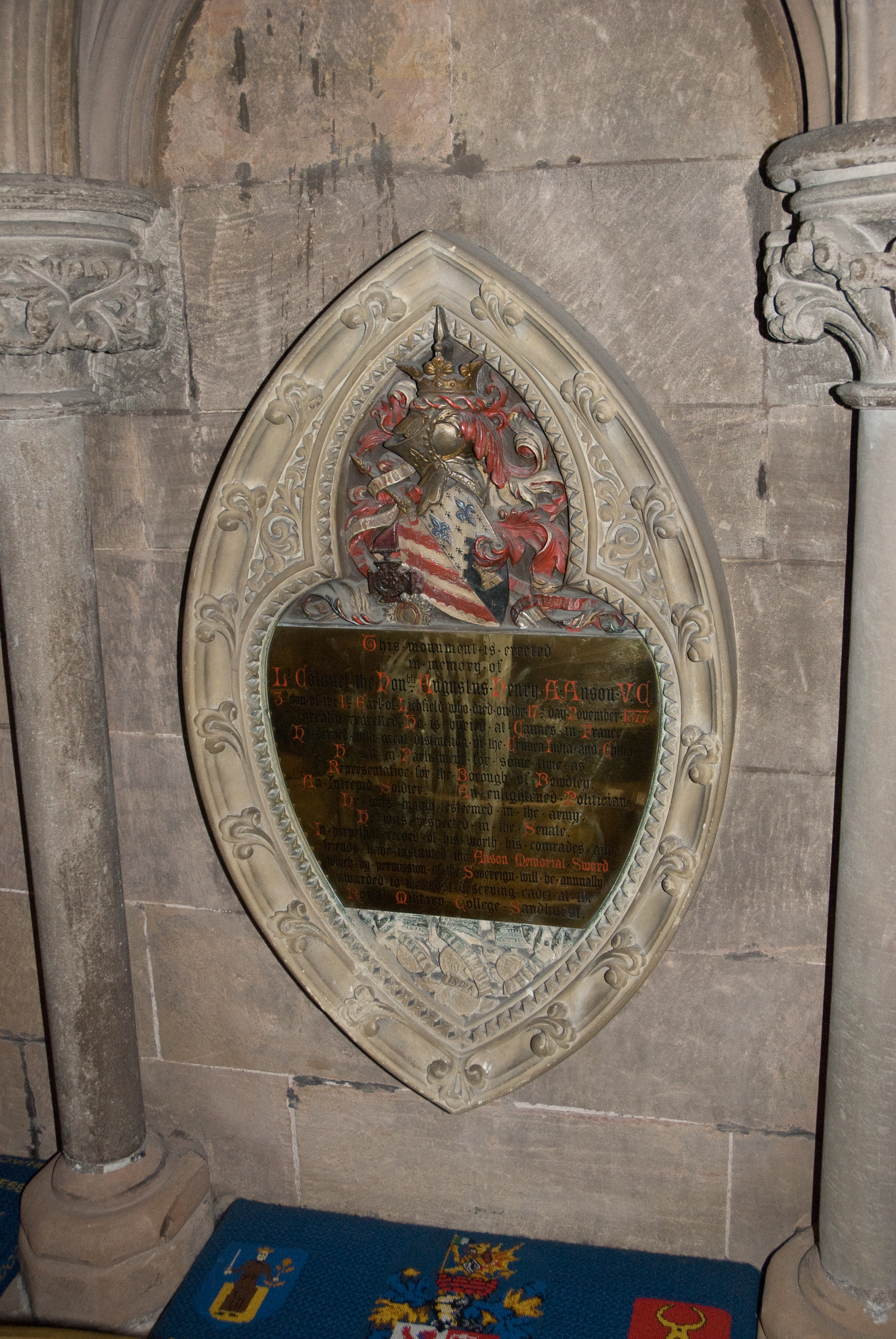 Memorial to Lt. Colonel Augustus Henry Anson. He married Amelia Claughton, a daughter of the future first Bishop of St Albans, Rev. Thomas Legh Claughton.